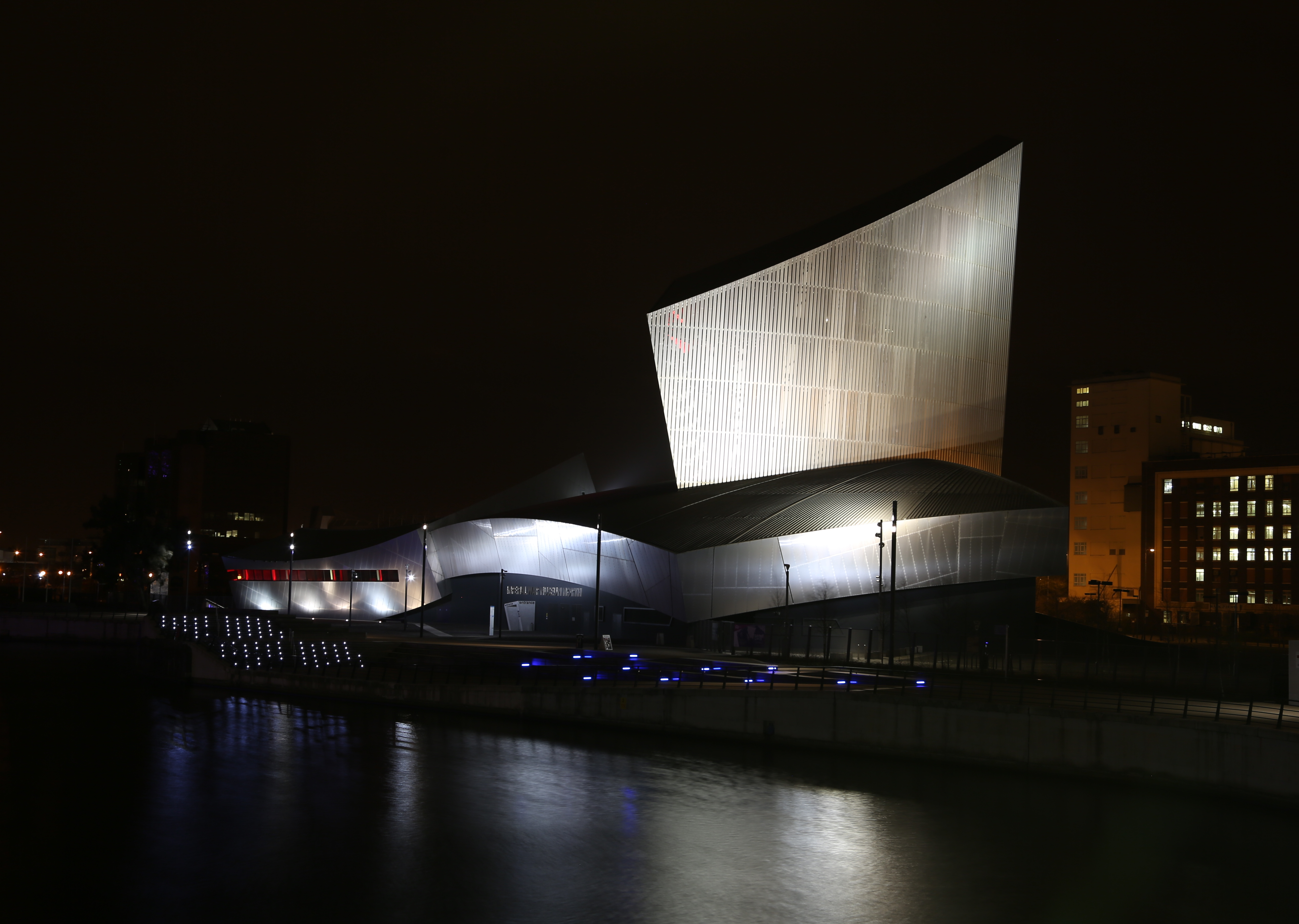 Photo of imperial war museum north at night taken from Media City Footbridge